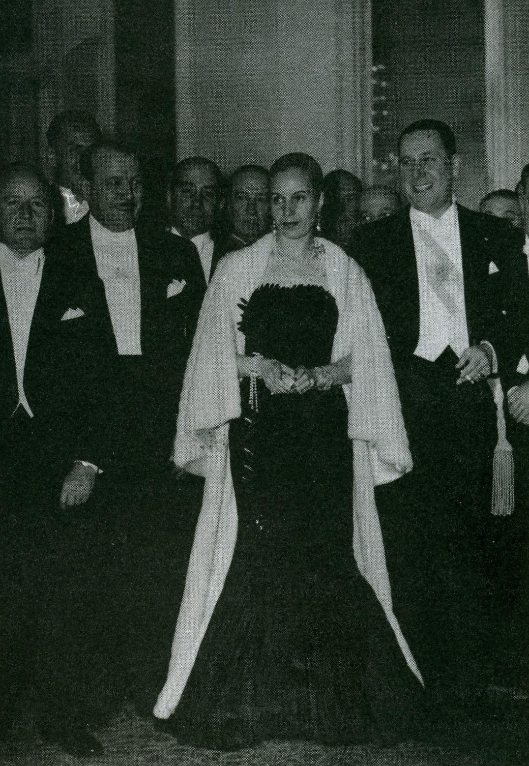 Eva and Juan Peron at the Colon Opera House.